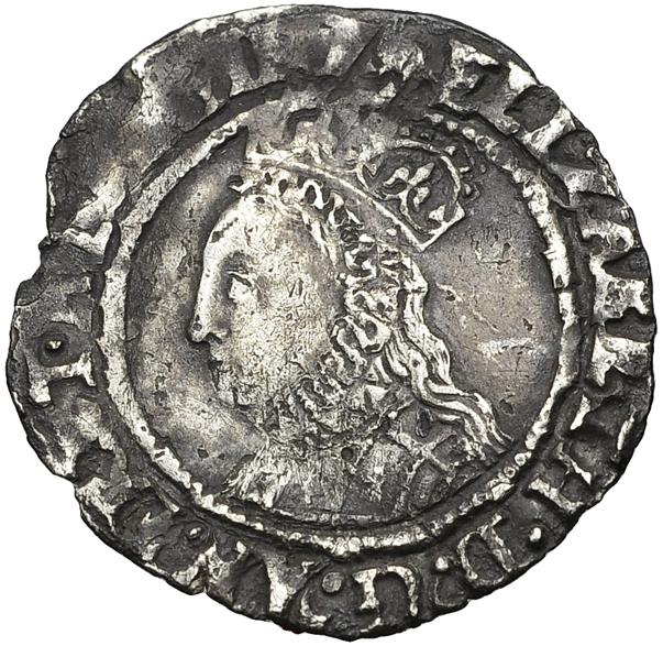 Half Groat of Elizabeth I